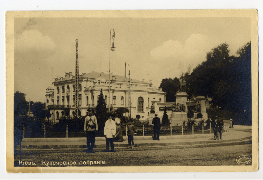 An early-20th century Russian postcard with the photo of the "Merchants Assembly" building in Kiev. Currently, the Kiev Philharmonic.